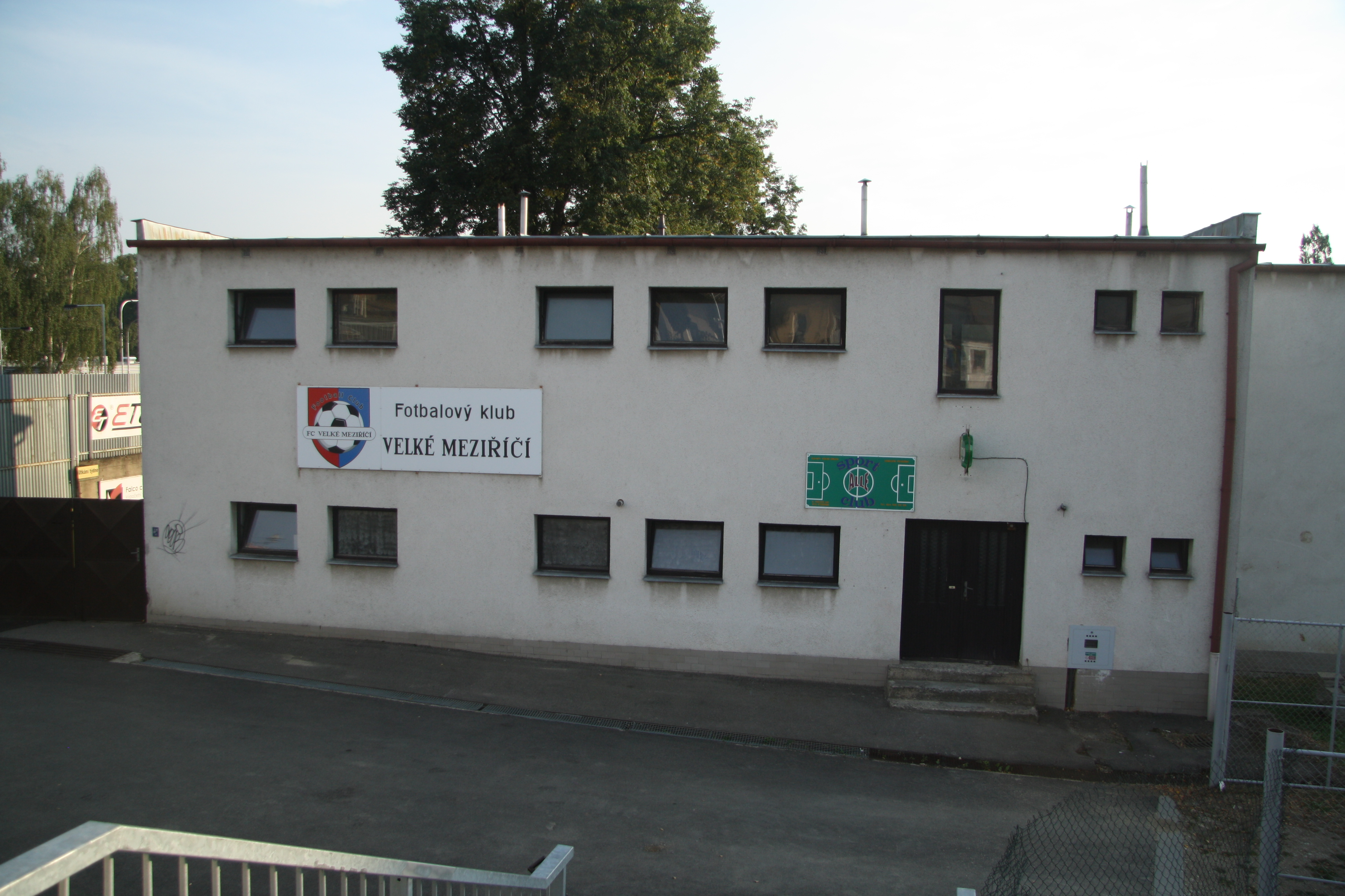 Building of FC Velké Meziříčí in Velké Meziříčí, Žďár nad Sázavou District.